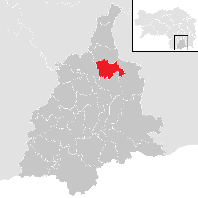 District Leibnitz